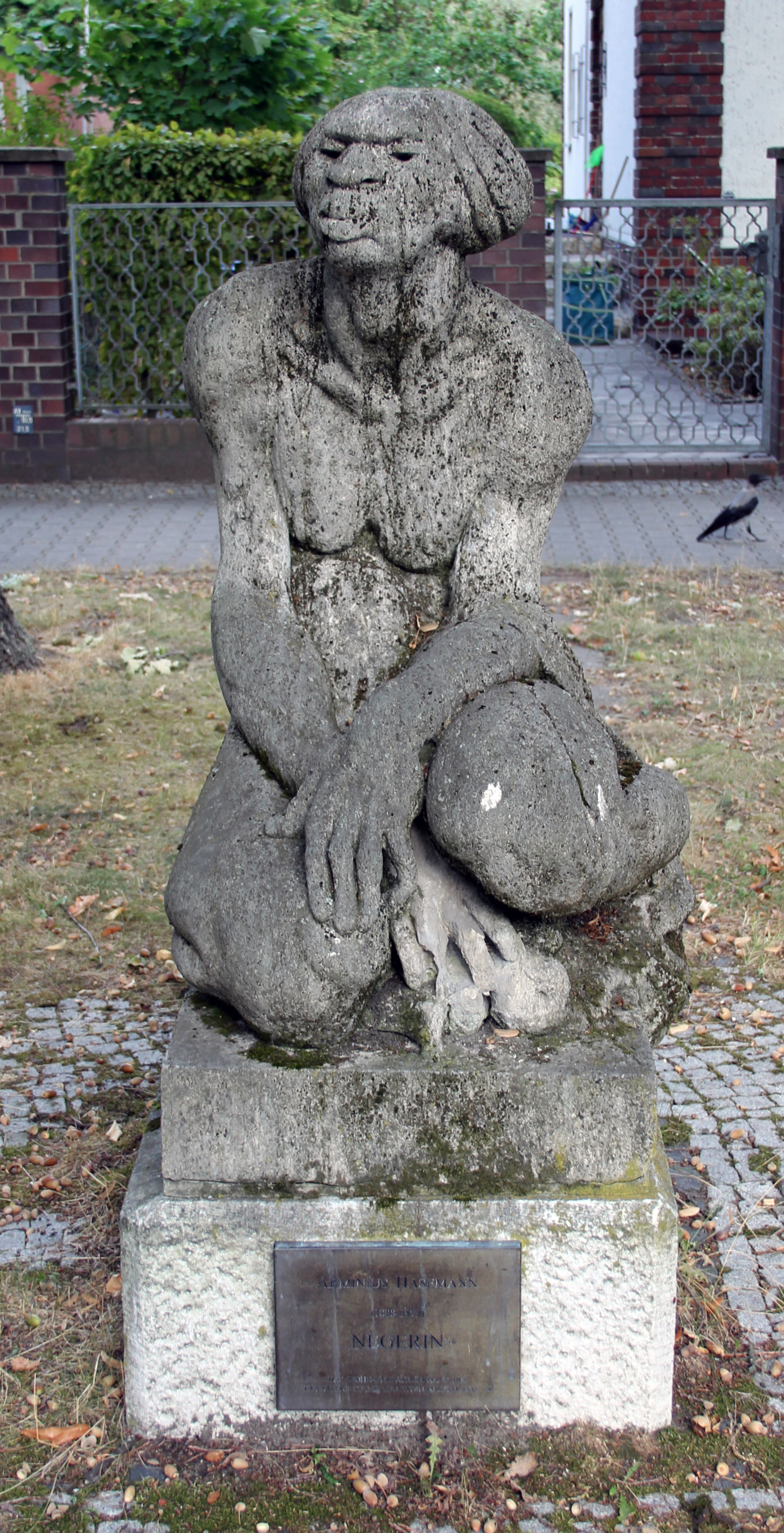 Sculpture, "Negerin" by Arminius Hasemann, Leuchtenburgstraße 34, Berlin-Zehlendorf, Germany